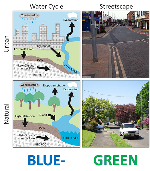 An image showing the comparison of hydrologic (water cycle) and environmental (streetscape) attributes in conventional (upper) and Blue-Green Cities. Two photographs of city streets are included.